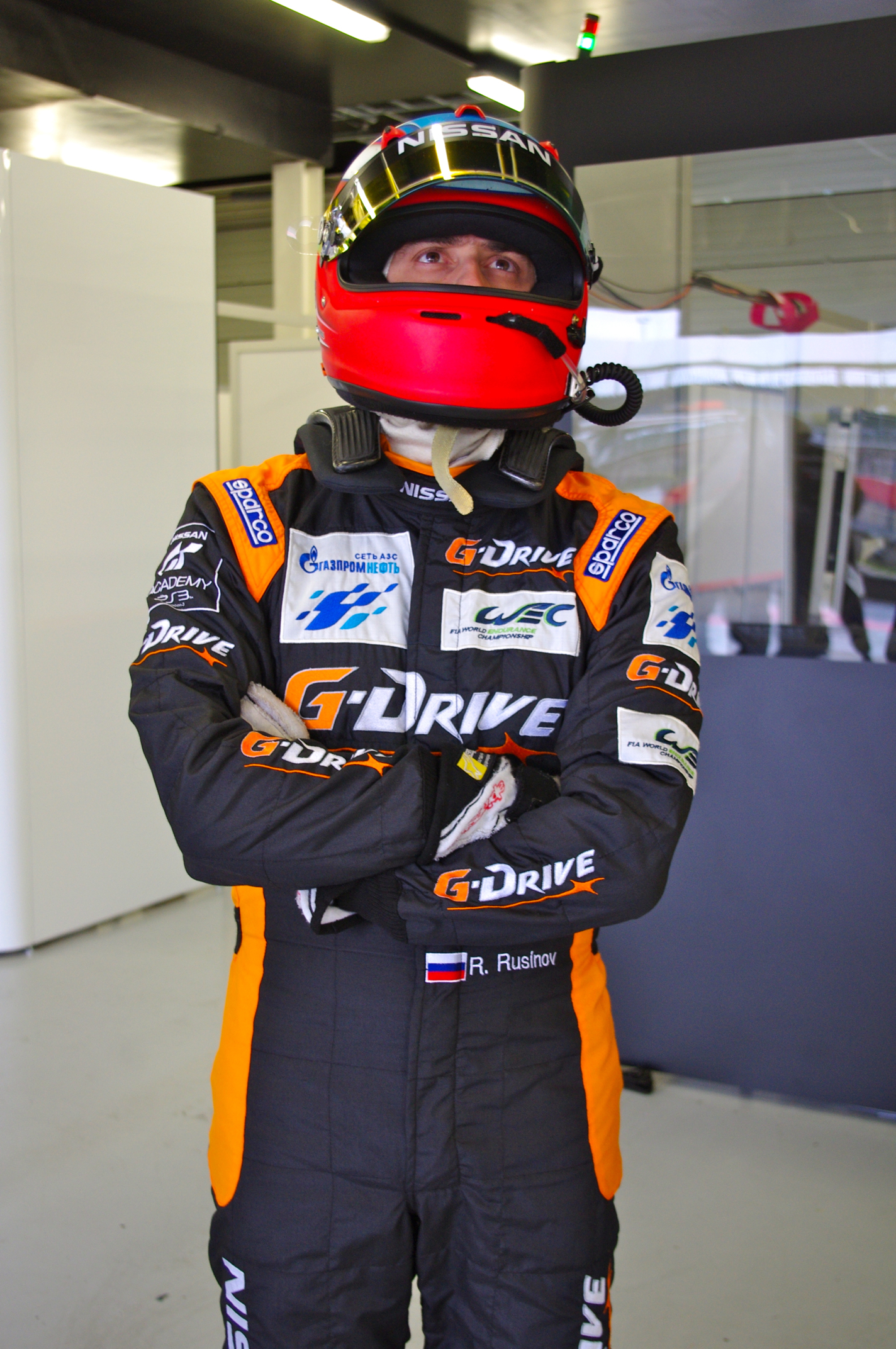 Silverstone 6 Hours 2013 FIA World Endurance Championship (WEC)